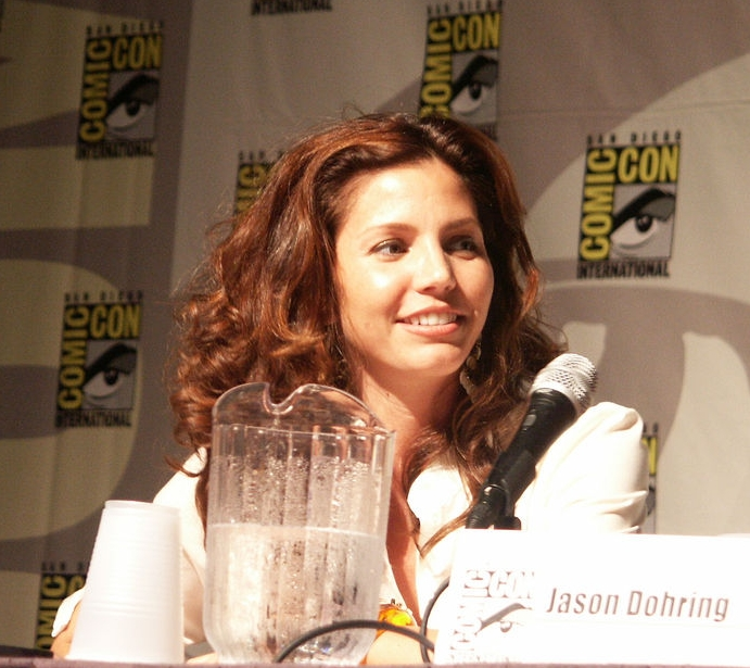 Actress Charisma Carpenter on the Veronica Mars panel at the 2005 ComiCon.